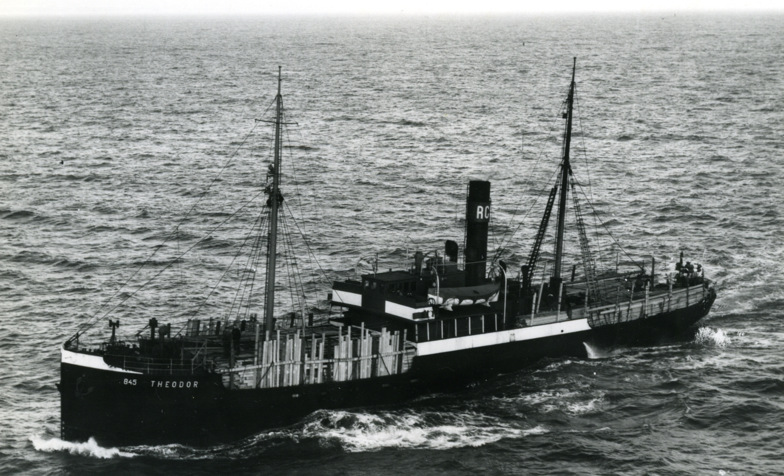 THEODOR (IMO 5601102) built at Flensburger Schiffbau-Gesellschaft, Flensburg, as ELSA (yard № 179, launched: 30-07-1889, delivered: 09-1898), later names: 1930 DANZIG, 1940 THEODOR, BU at Eisen u.Metall KG Lehr & Co., Bremerhaven 06-09-1953.